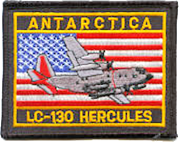 139th Airlift Squadron - Antarctica patch